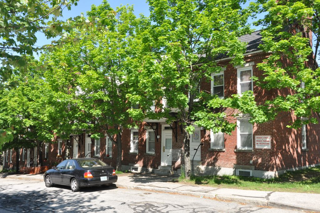 Housing units formerly of the Amoskeag Manufacturing Company, located in District A of its millyards in Manchester, New Hampshire.